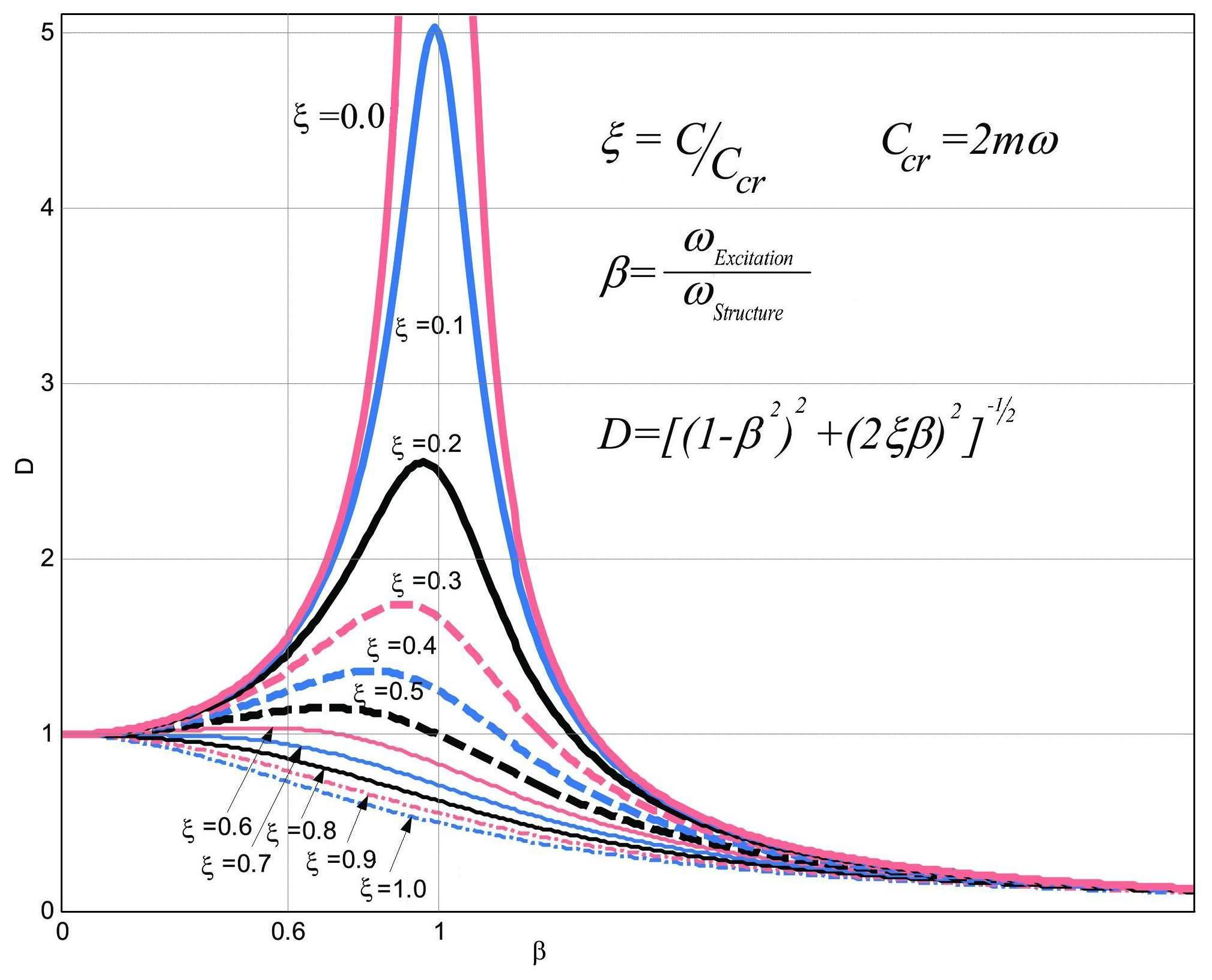 this is a diagram indicating variation of D versus beta